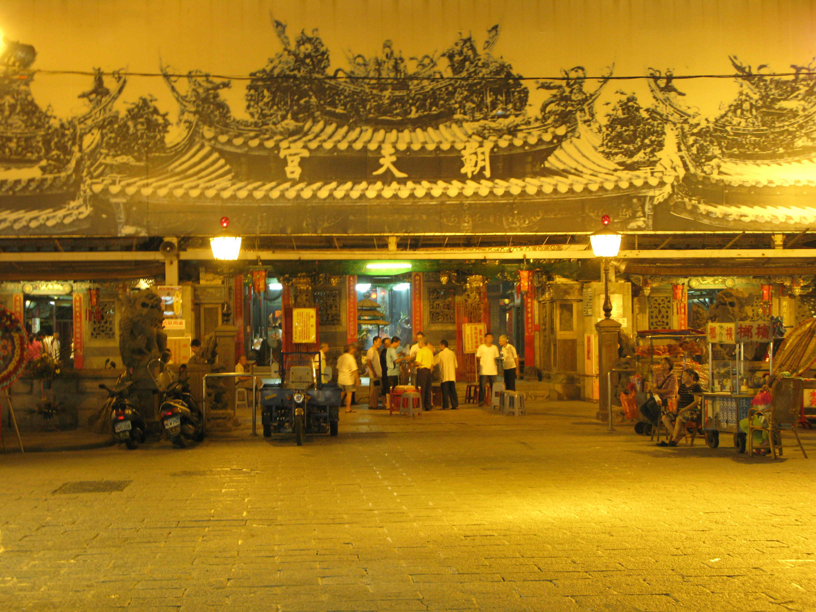 Taiwan，PEIKANG CHAOTIEN TEMPLE.